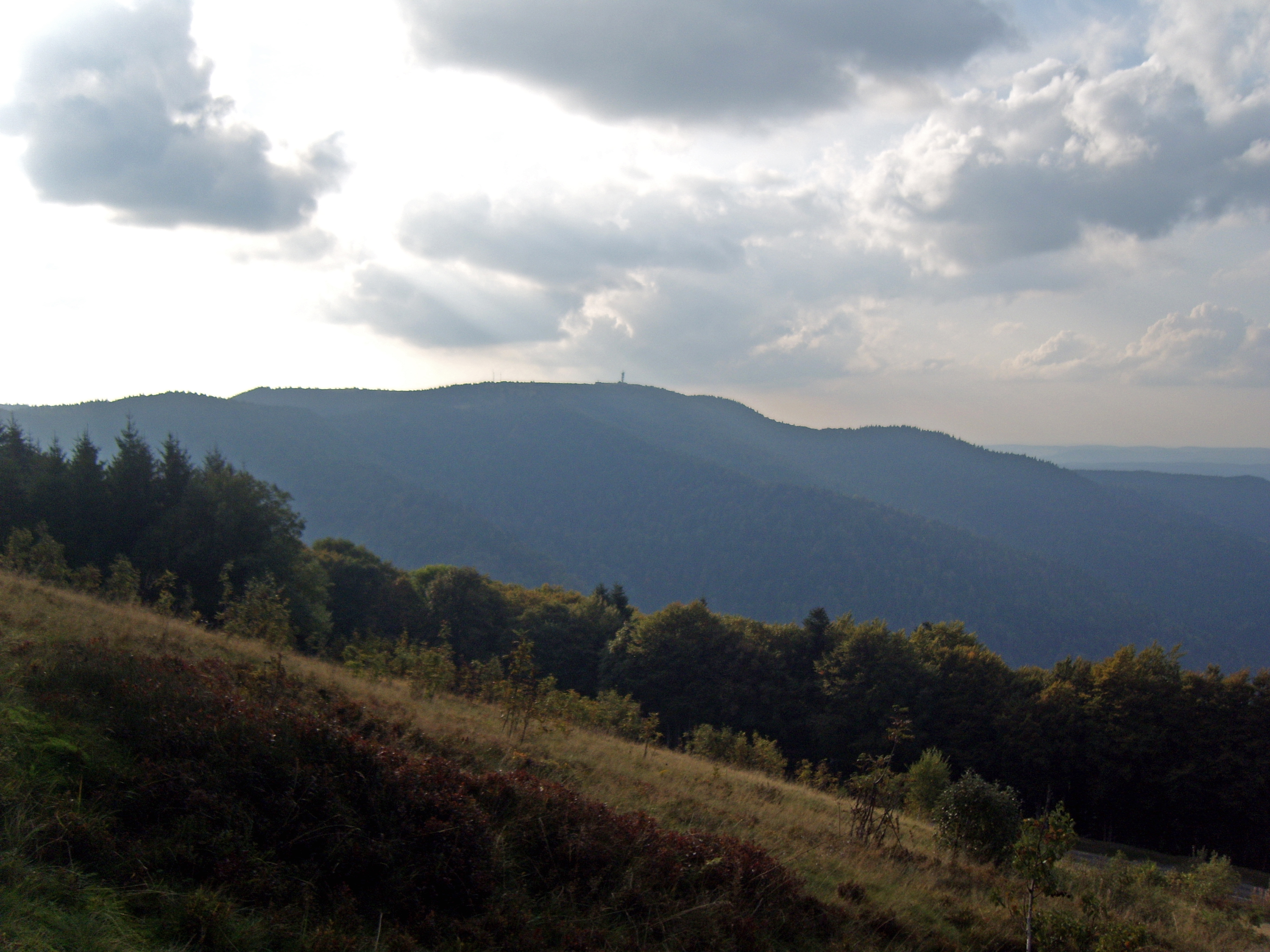 The Ballon de Servance viewed from the Ballon d'Alsace